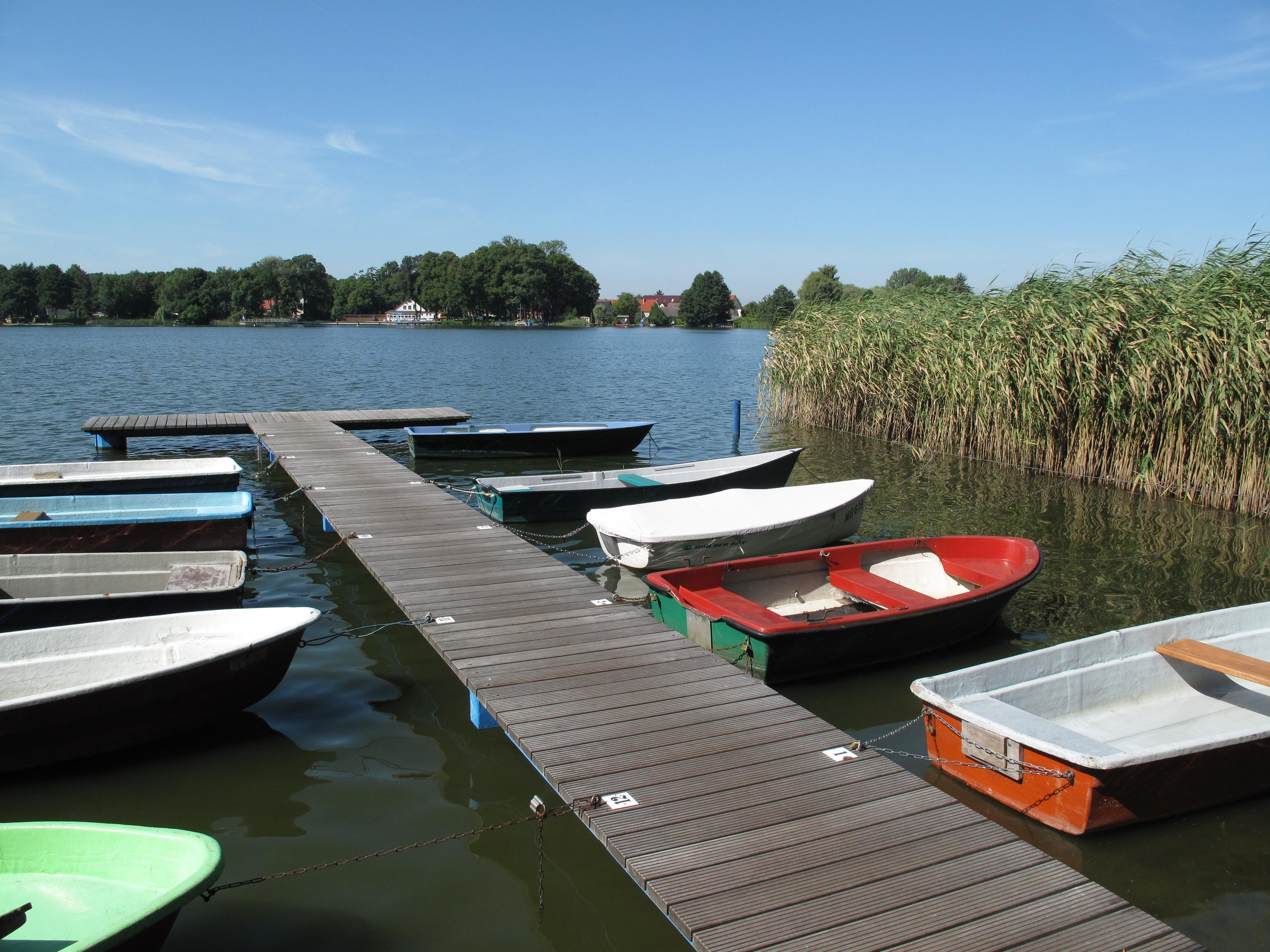 The Großer Müllroser See is a lake in Germany, situated between the town Müllrose in the north and the municipality Mixdorf in the south in the District Oder-Spree, Brandenburg. The lake covers 1,32 km² and is a part of the Schlaube Valley Nature Park.